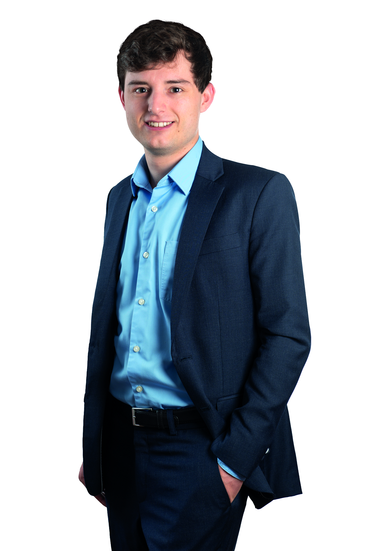 represents portrait of Benjamin Fischer